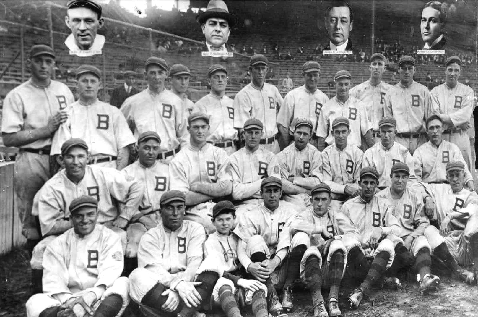 The 1914 World Series Champion Boston Braves